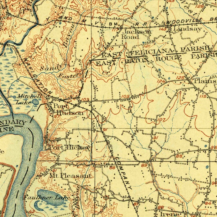 Port Hudson, Louisiana and vicinity. Cropped from Bayou Sara Quadrangle, USGS Historical Topographic Map Collection, August 1906 Edition. Scaled to 1 inch = 1 mile.